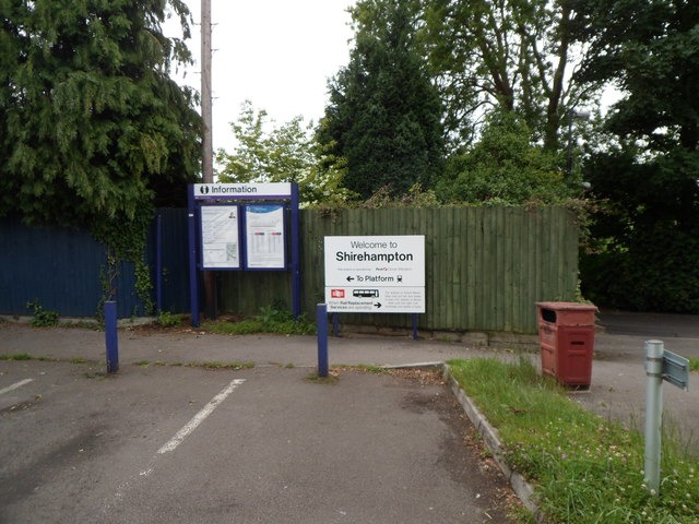 Welcome to Shirehampton railway station, Bristol